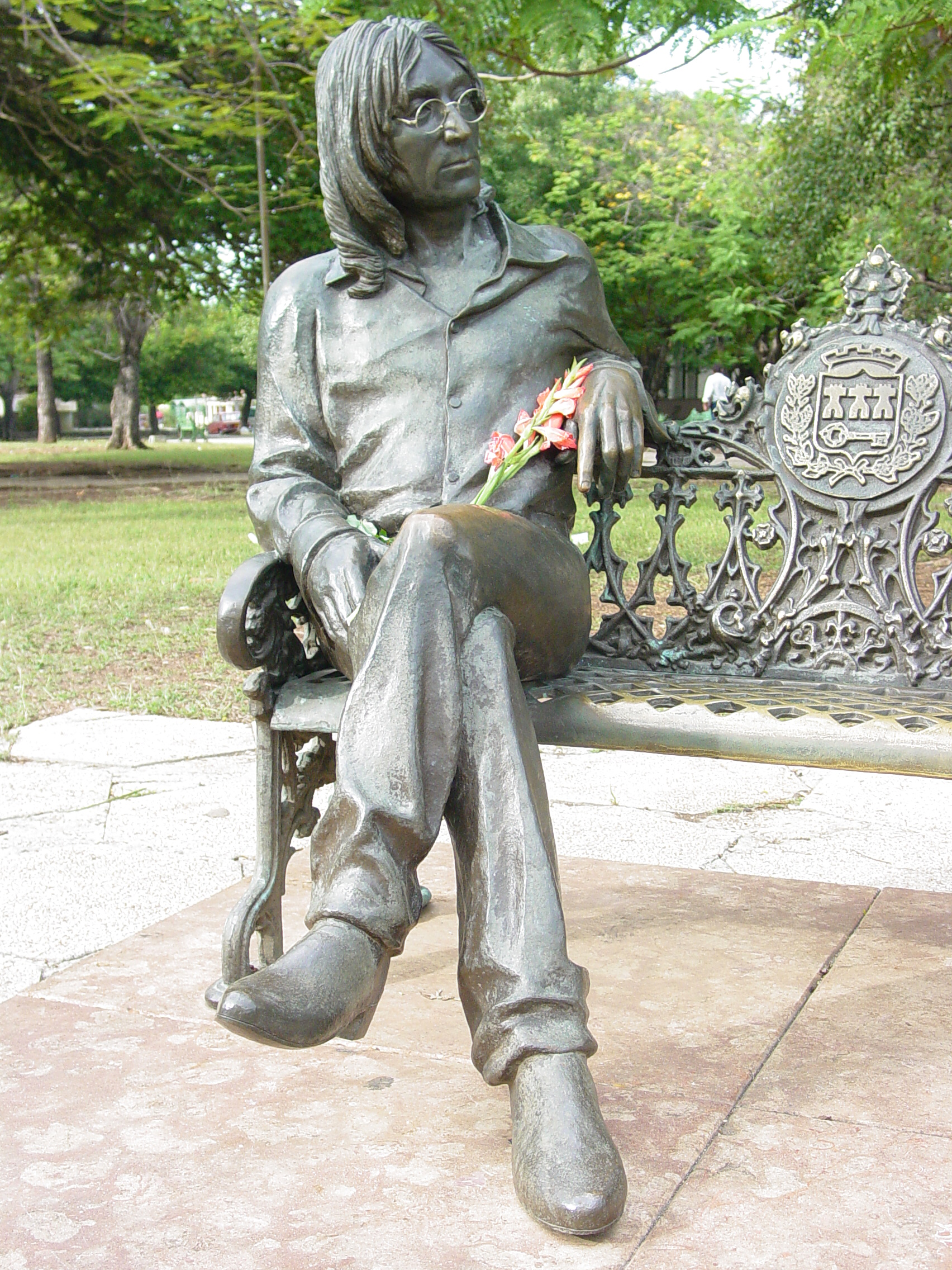 Statue of John Lennon in public park, Vedado, Havana. December 2006.